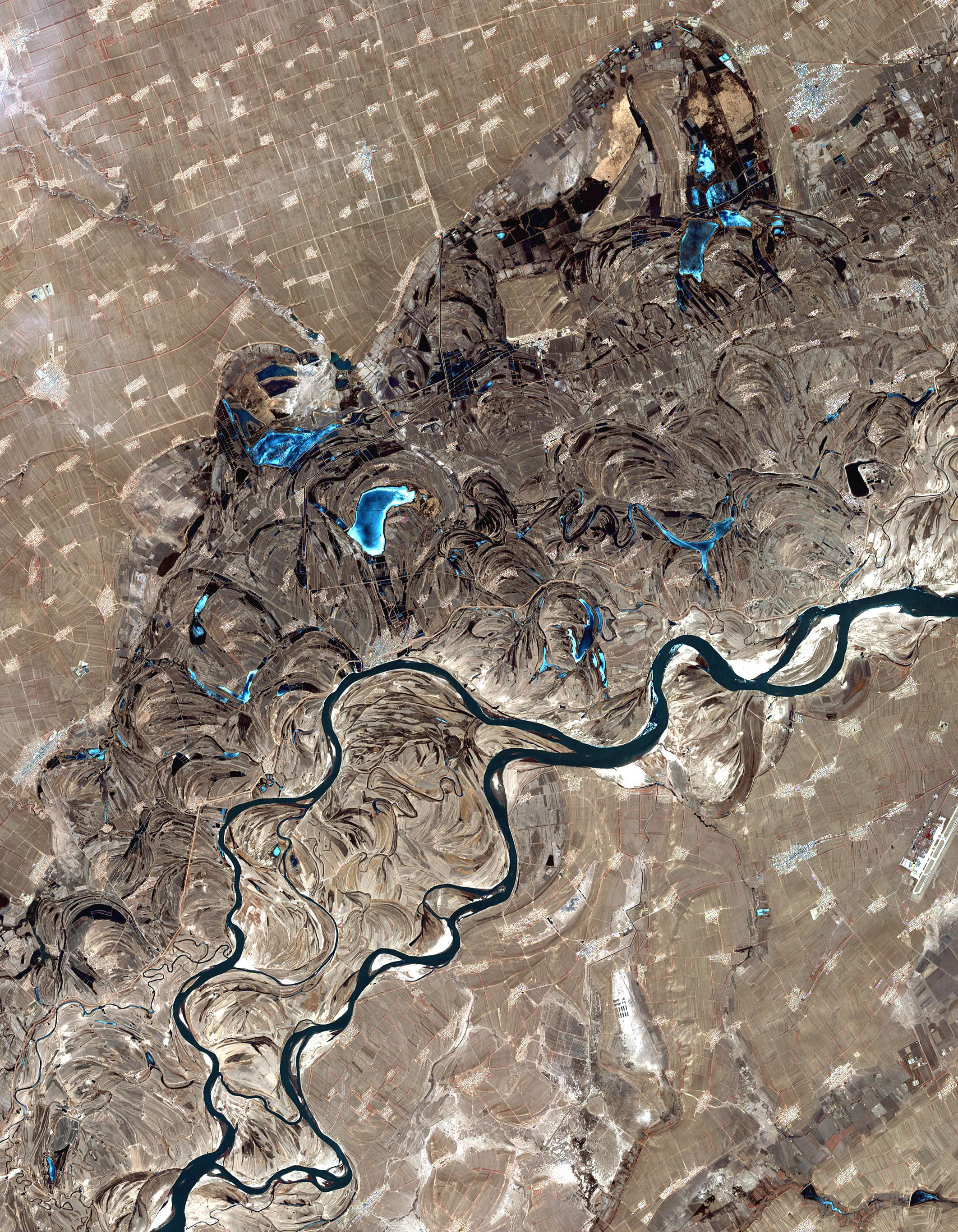 Satellite photo of the Songhua River, just west of Harbin, northeast China.